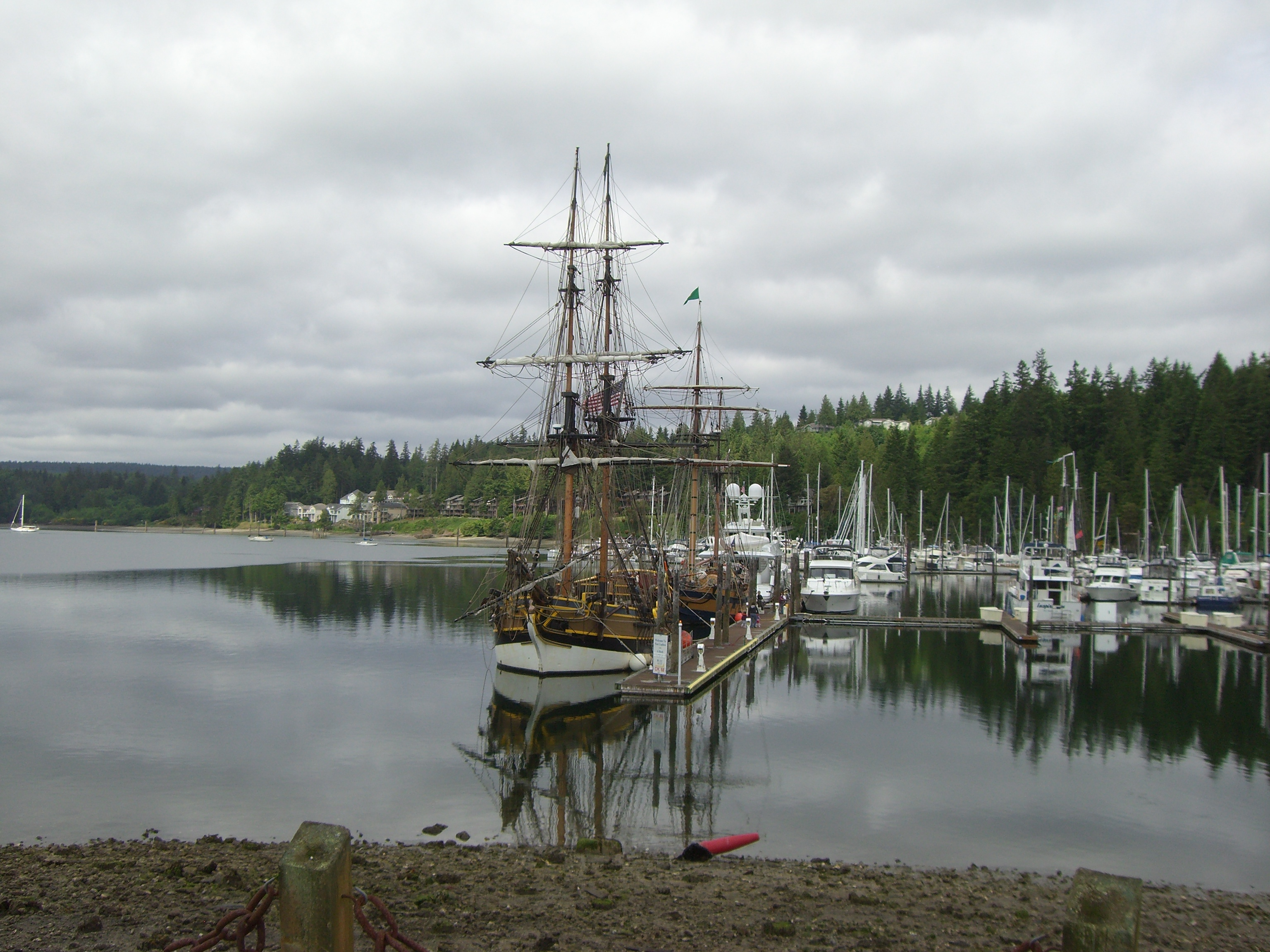 Marina at Port Ludlow, Washington. The tall ships are the Lady Washington (in front) and Hawaiian Chieftain. The news reported that they docked at Port Ludlow on 16 June 2011. [1]